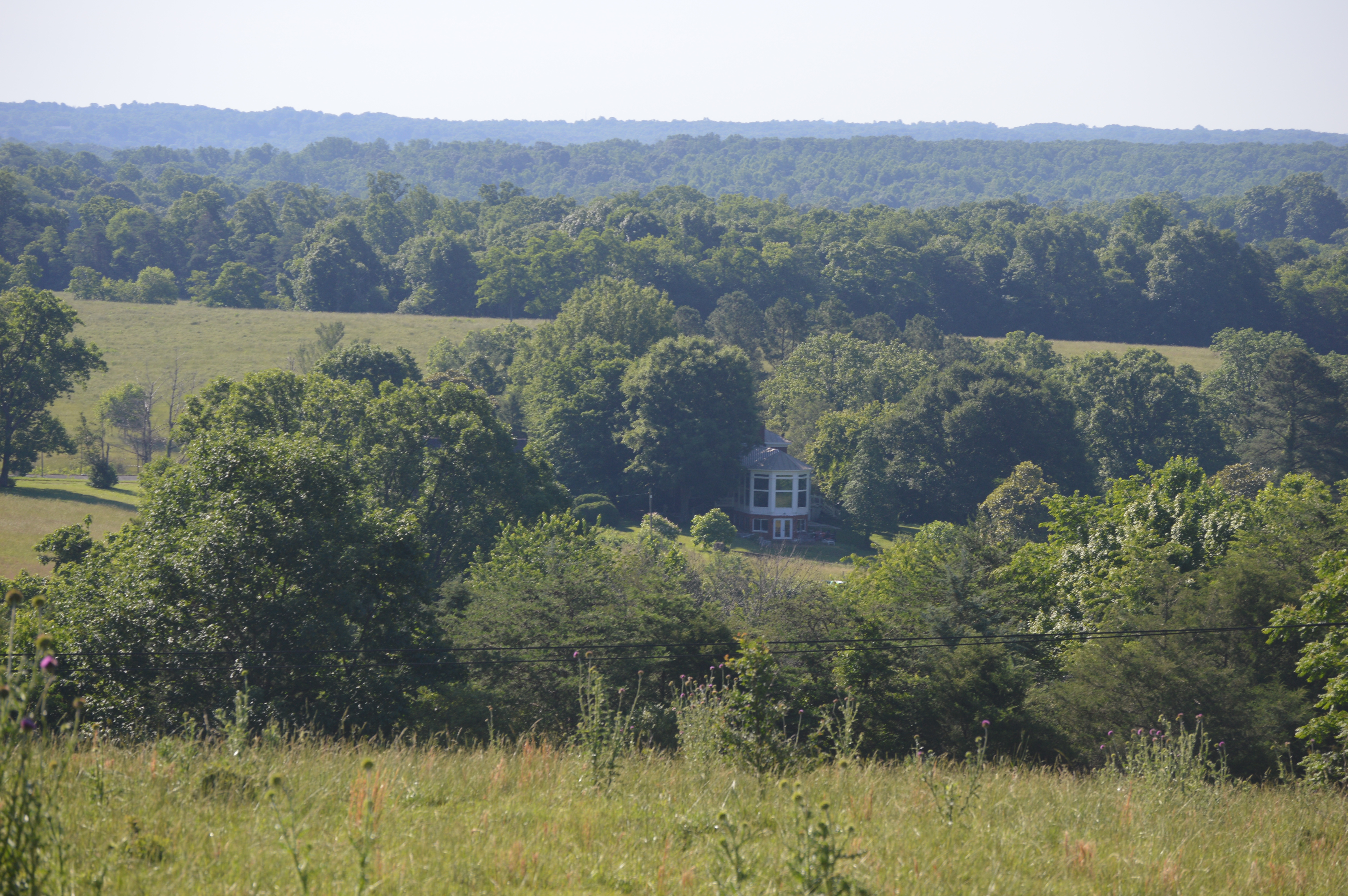 Distant view from the northwest of the main house (built 1850) at the "Speed the Plough" farmstead, located at 389 Fair Lea Lane northwest of Monroe in Amherst County, Virginia, United States. The farmstead is listed on the National Register of Historic Places as a historic district.